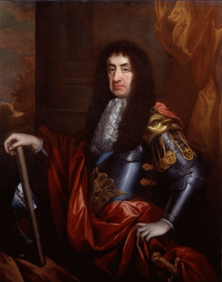 Portrait of Charles II Stuart, king of England